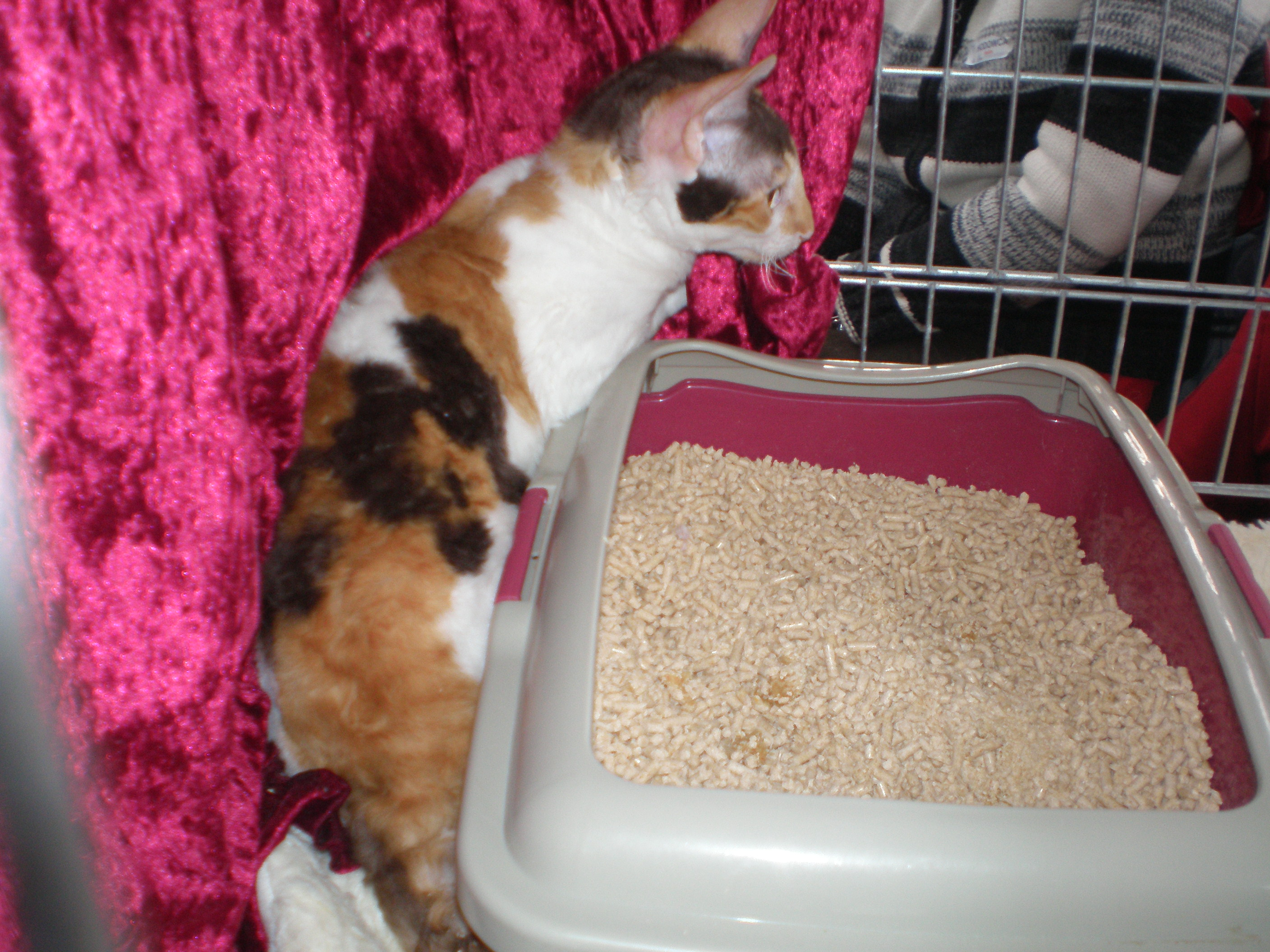 Exhibition of racial cat in Poznań's Word Trade Center